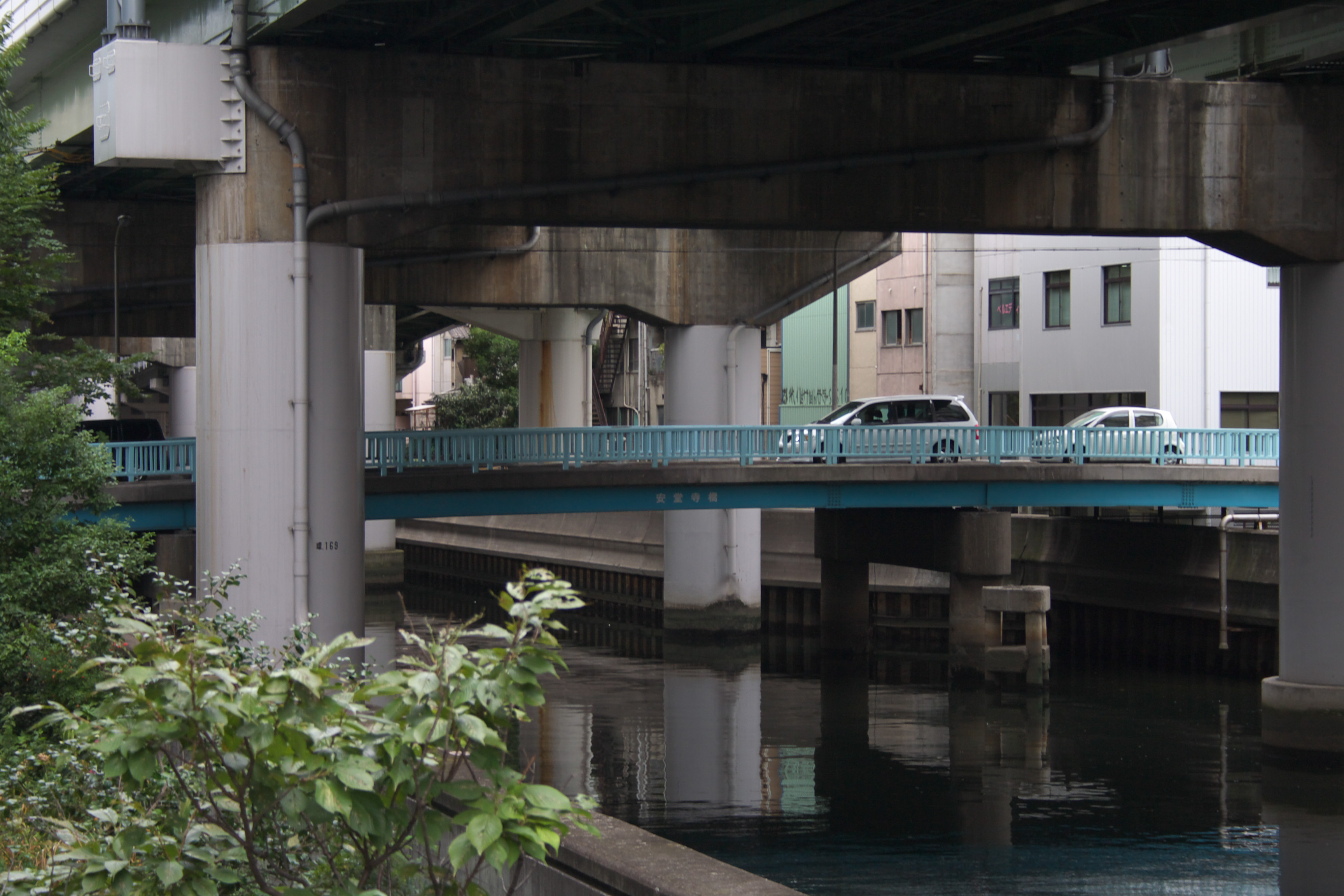 Andōjibashi Bridge (Osaka City, JAPAN)